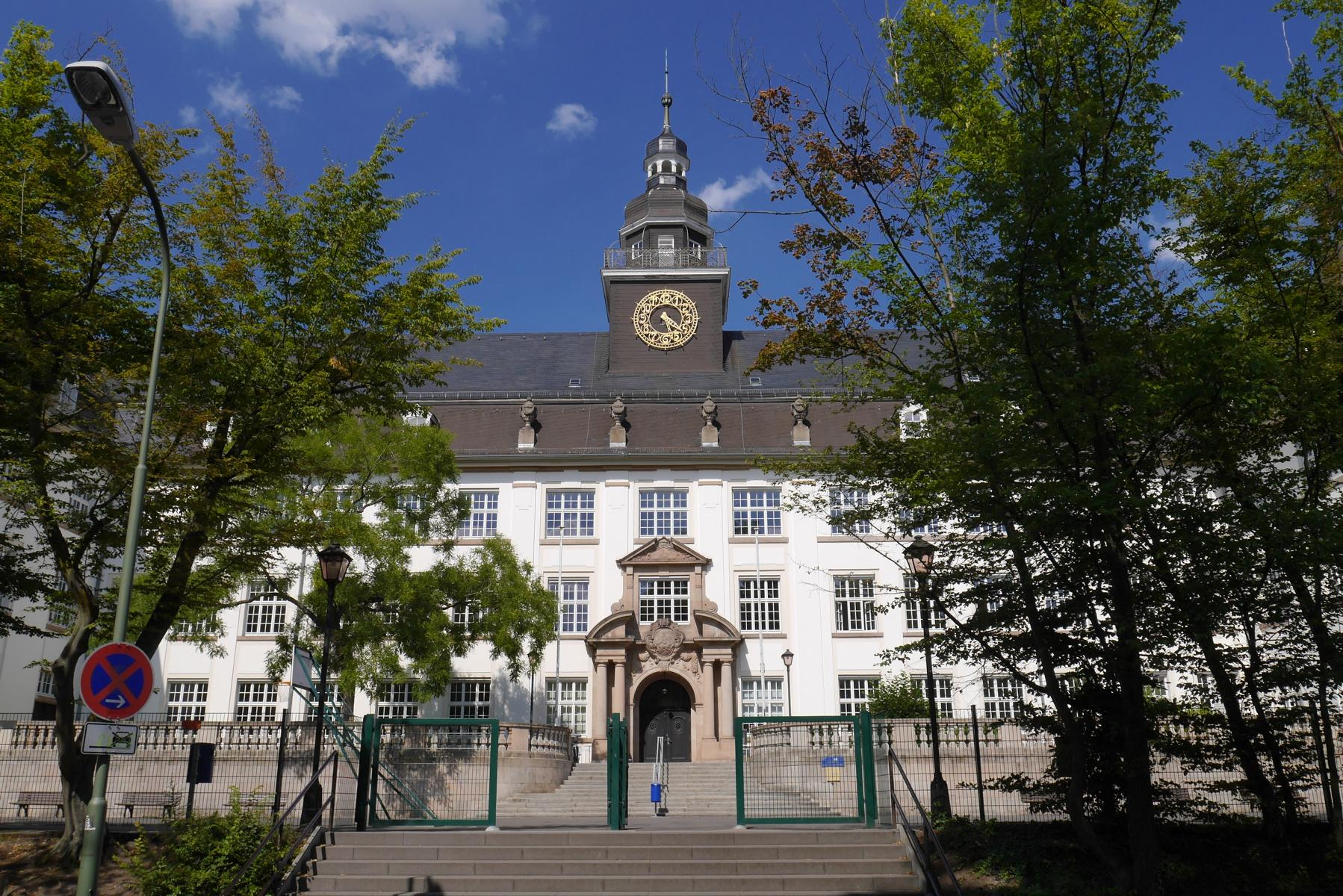 Leibnizschool in Offenbach am Main